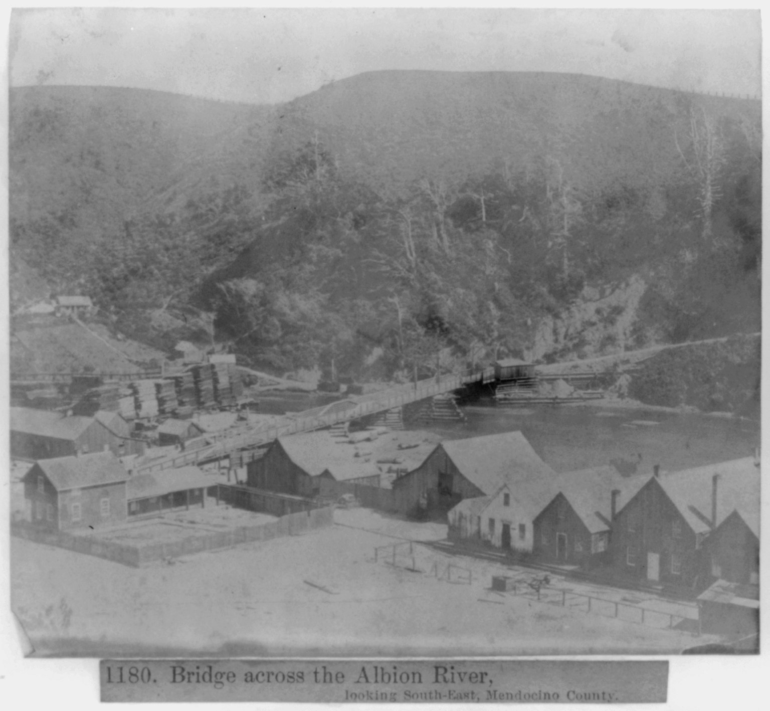 Title: Bridge across the Albion River, looking Southeast, Mendocino County Abstract/medium: 1 photographic print : half stereograph, albumen.